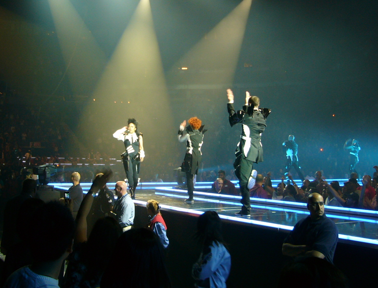 Janet Jackson, Vancouver